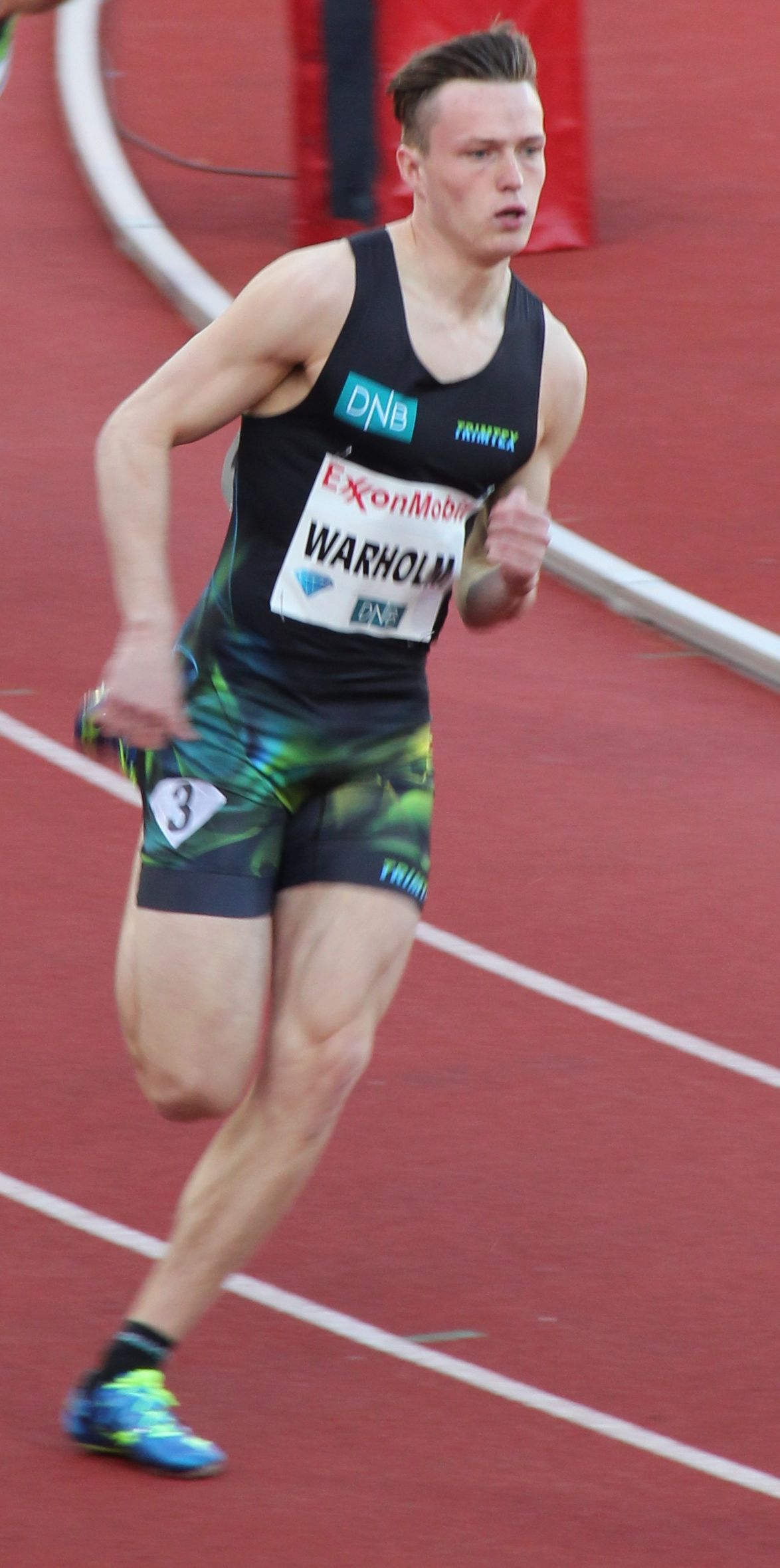 Karsten Warholm at the 2015 Bislett Games